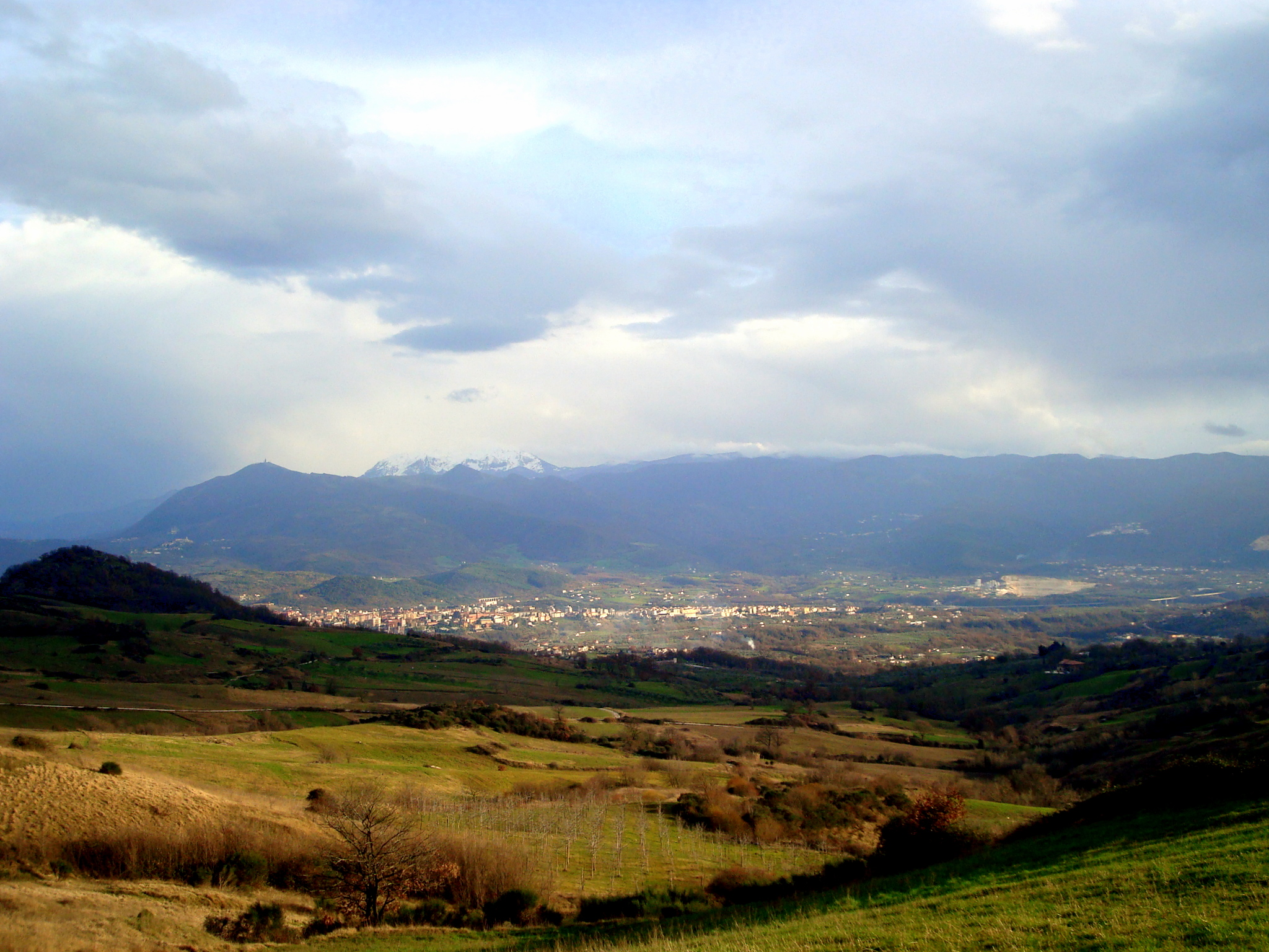 Panorama Isernia